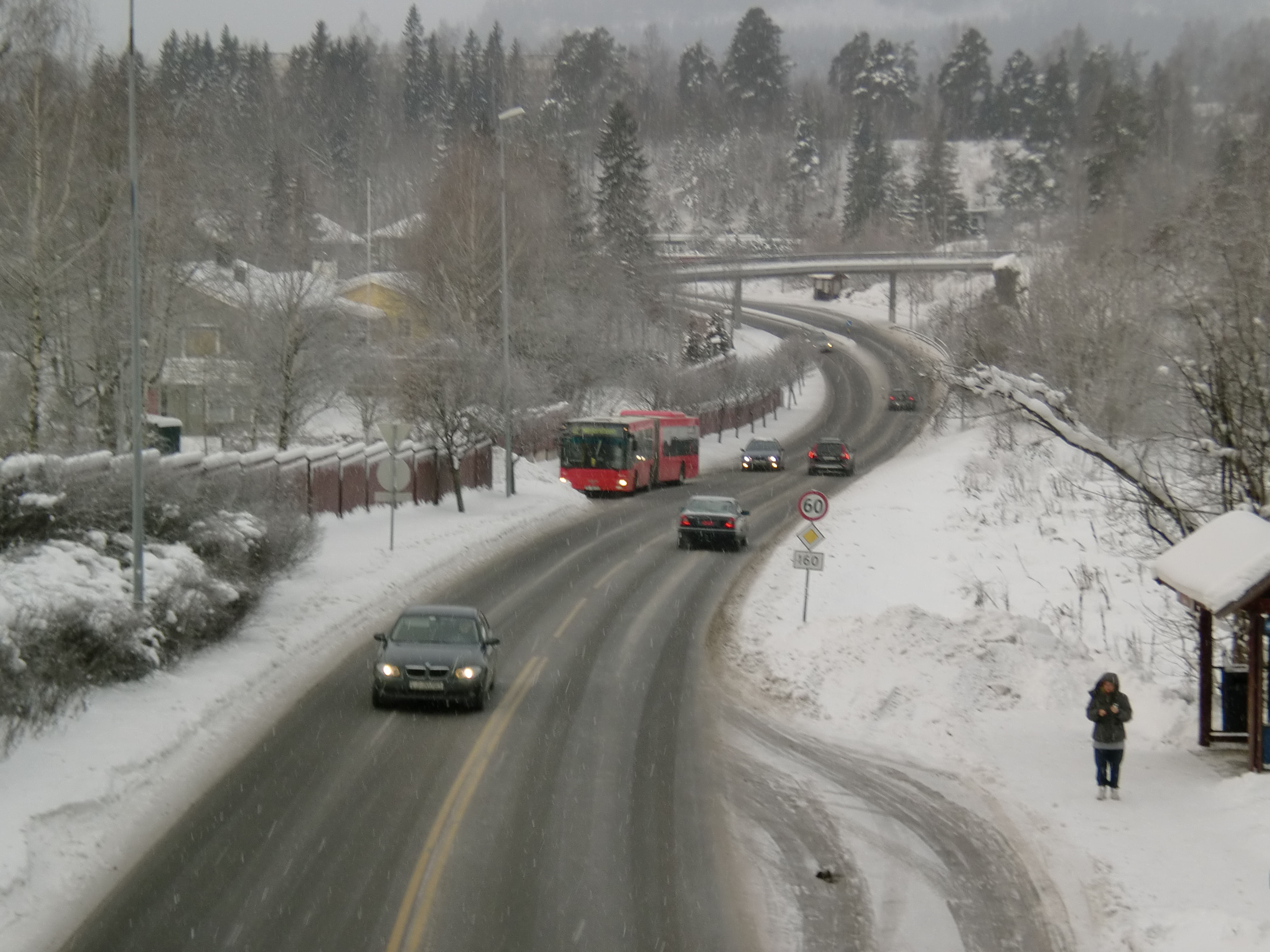 Norwegian National Road 160 (Riksvei 160 or Bærumsveien) seen near Gjønnes bus station with a line 42 bus (Kolsås-Majorustua) visible. Probably fun for Americans etc that this is a National Road.